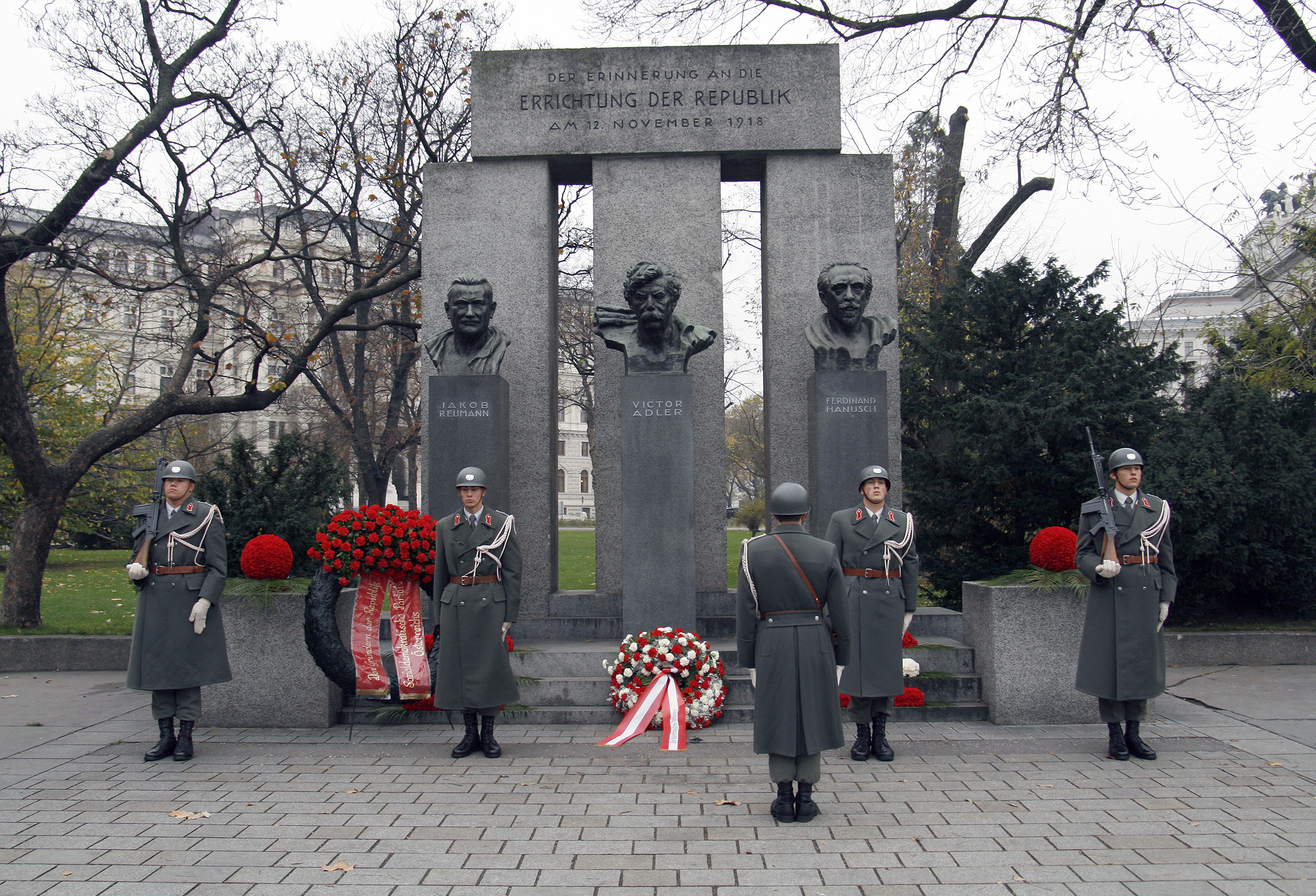 The Republikdenkmal (Memorial of the Republic) in Vienna on the 90th anniversary of Austrias change from monarchy to republic.